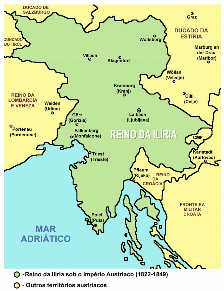 Portuguese version of Map of the Austrian Kingdom of Illyria